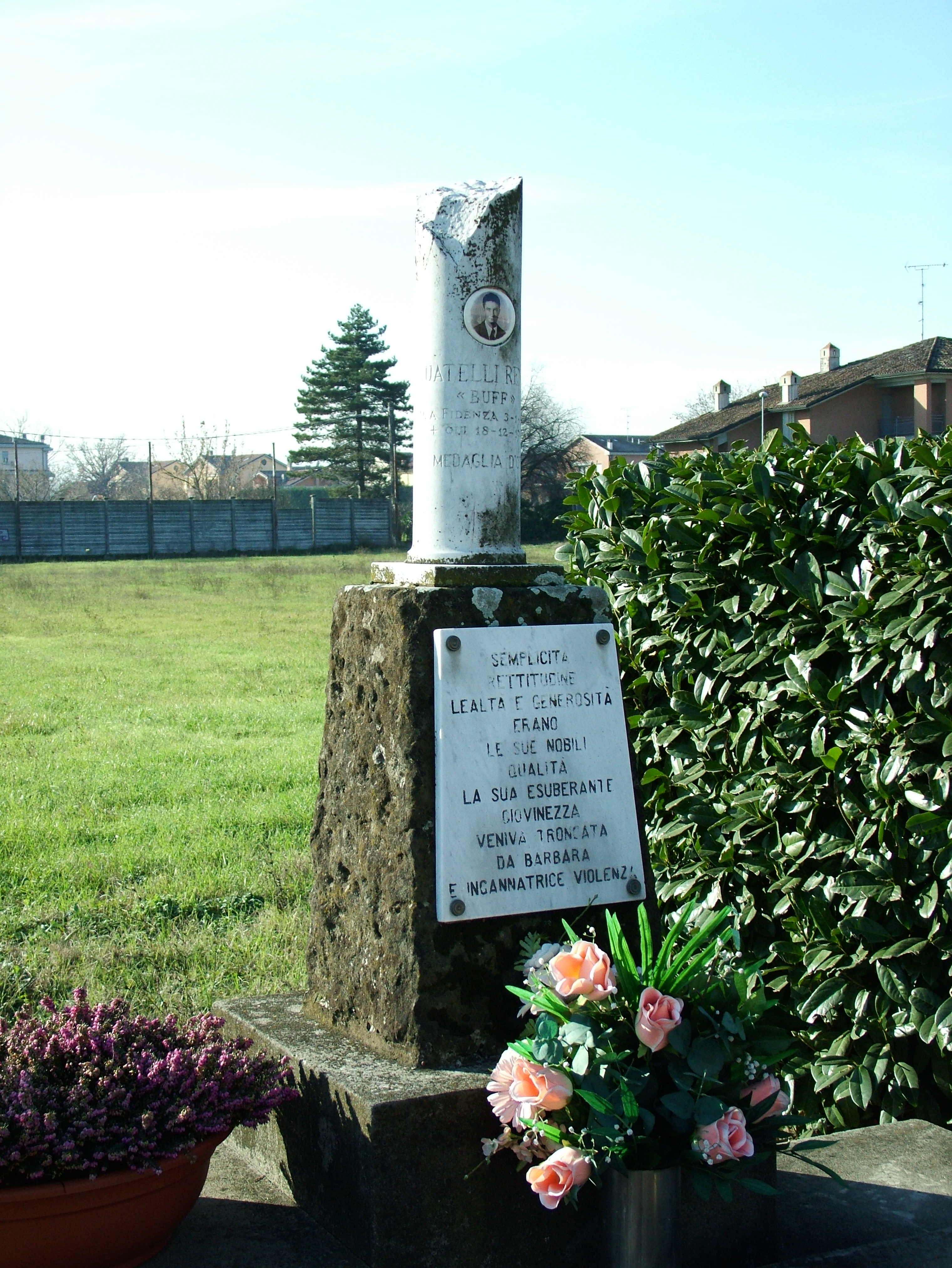 Memorial stone in memory of the partisan Renato Guatelli place on the lateral side of the Via Emilia in Coduro of Fidenza, Parma, Italy.